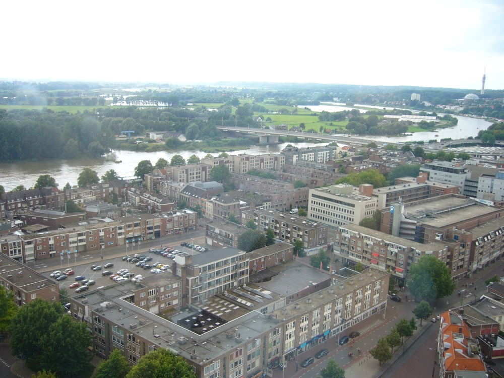 Arnhem, Netherlands (a view form the cathedral tower)